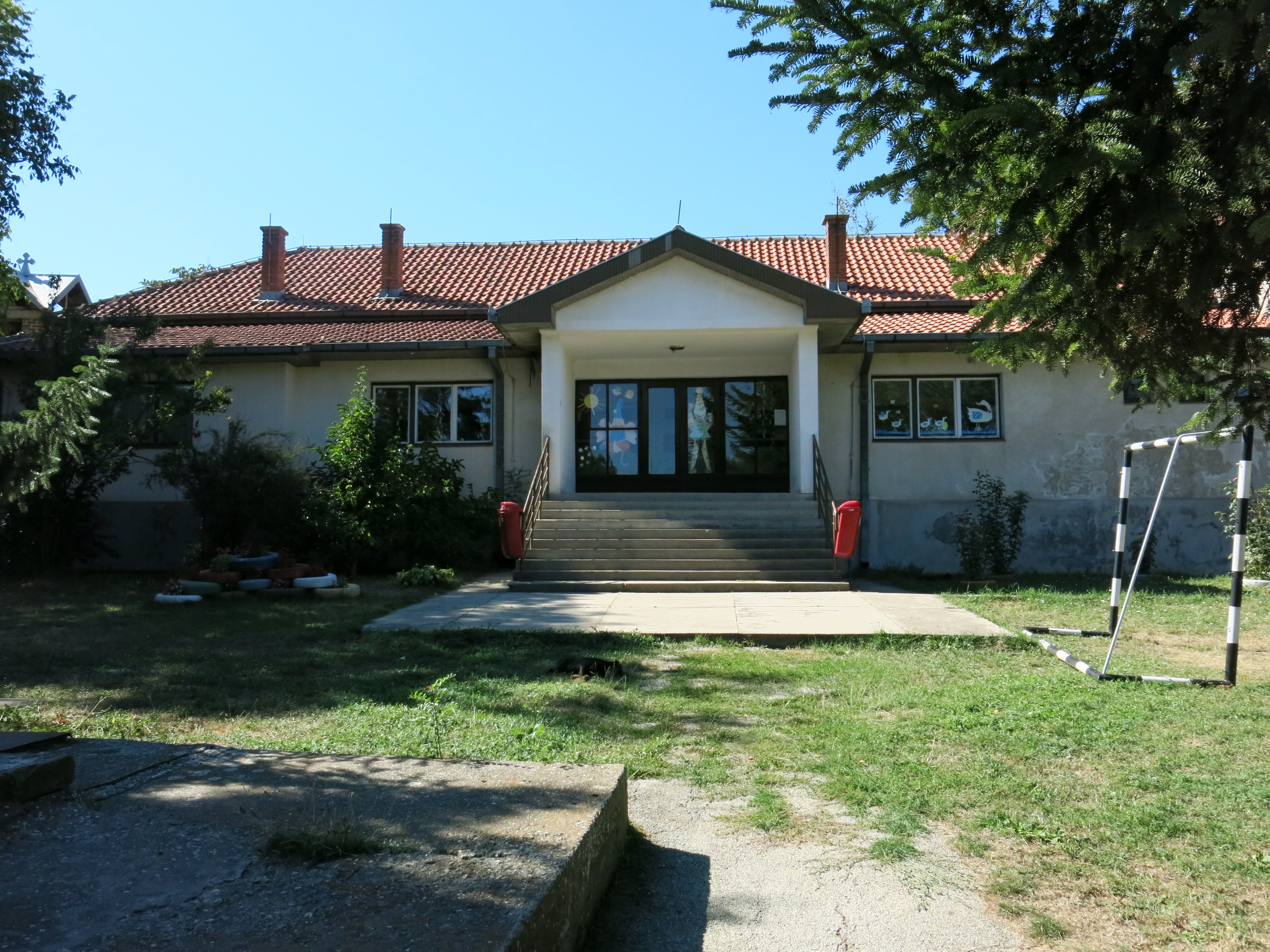 Landol, Elementary school Ilija Milosavljević Kolarac